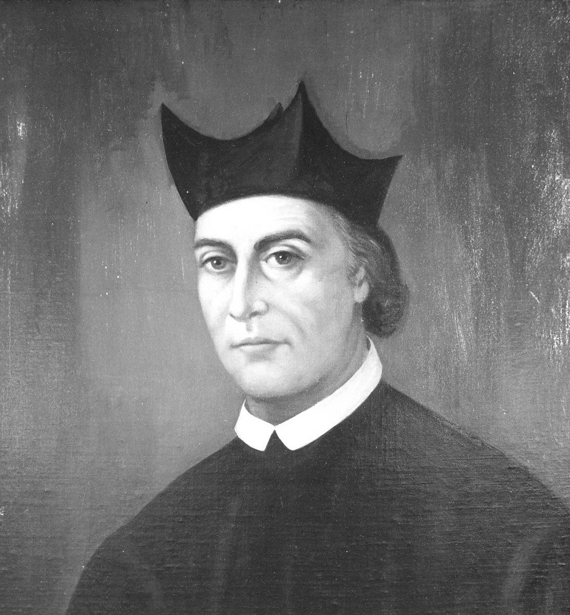 Portrait of Rev. Joseph A. Lopez, S.J., president of Georgetown University (1840), wearing a Spanish biretta